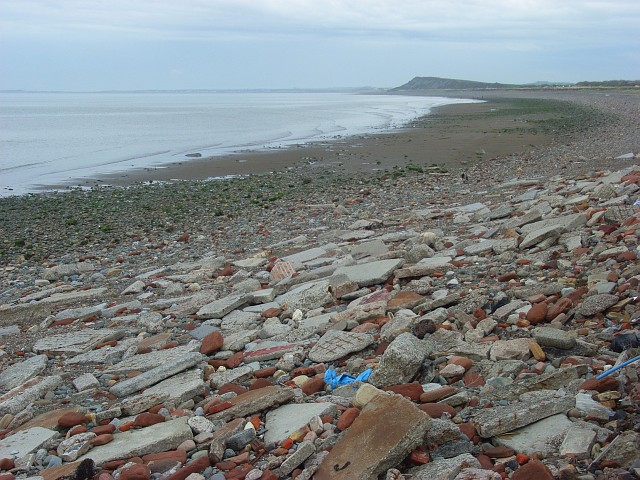 Beach at Crosscanonby A view across Allonby Bay. The beach is a mixture of sand and coarse stones but is here strewn with a lot of builders' rubble. This is beside the northern end of Maryport Golf Club. The tide is well in, but receding.